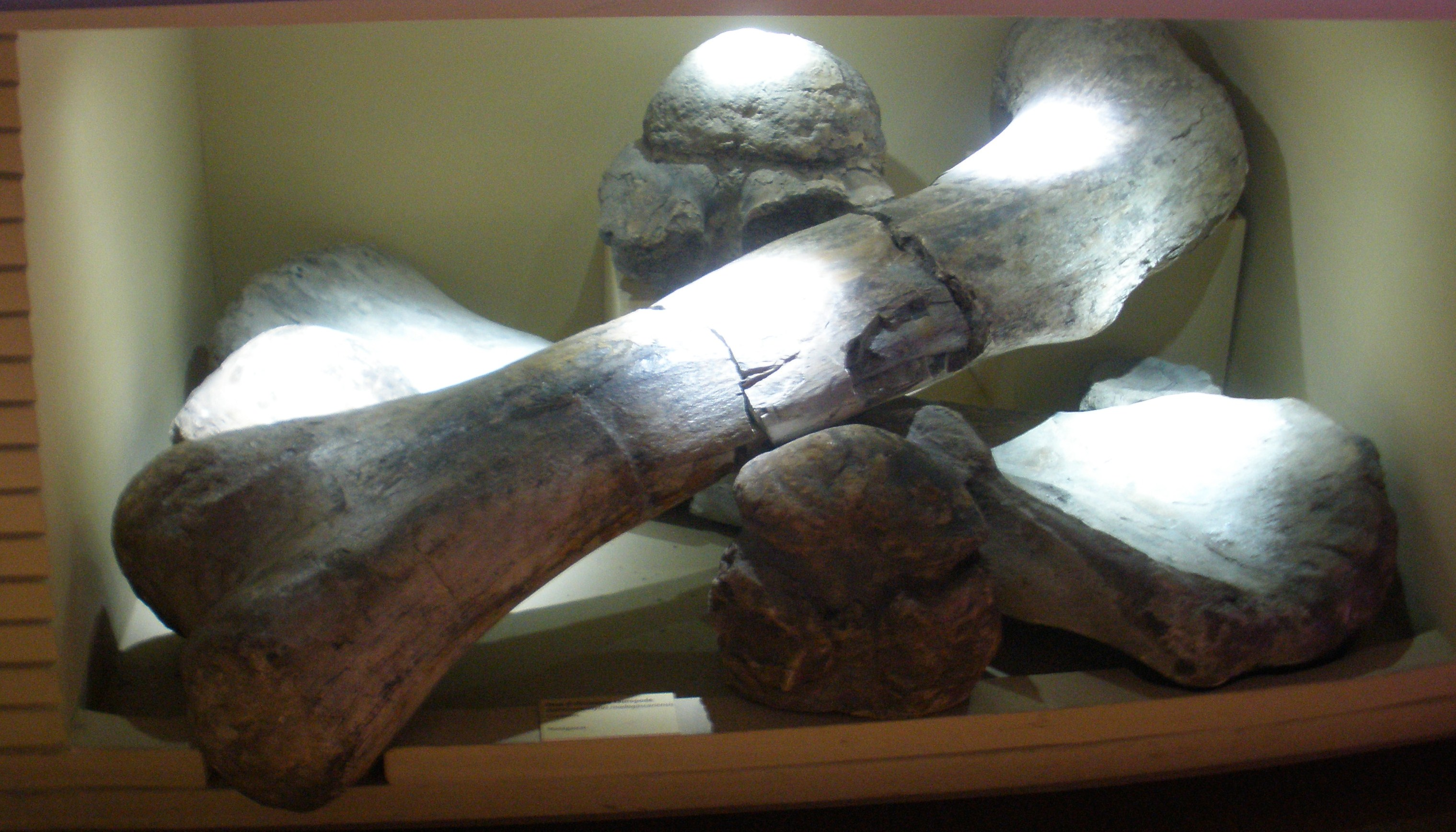 fossil bothriospondylus